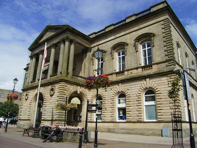 Town Hall. Built in 1858 in memory of Sir Robert Peel the Prime Minister who was born in the area.